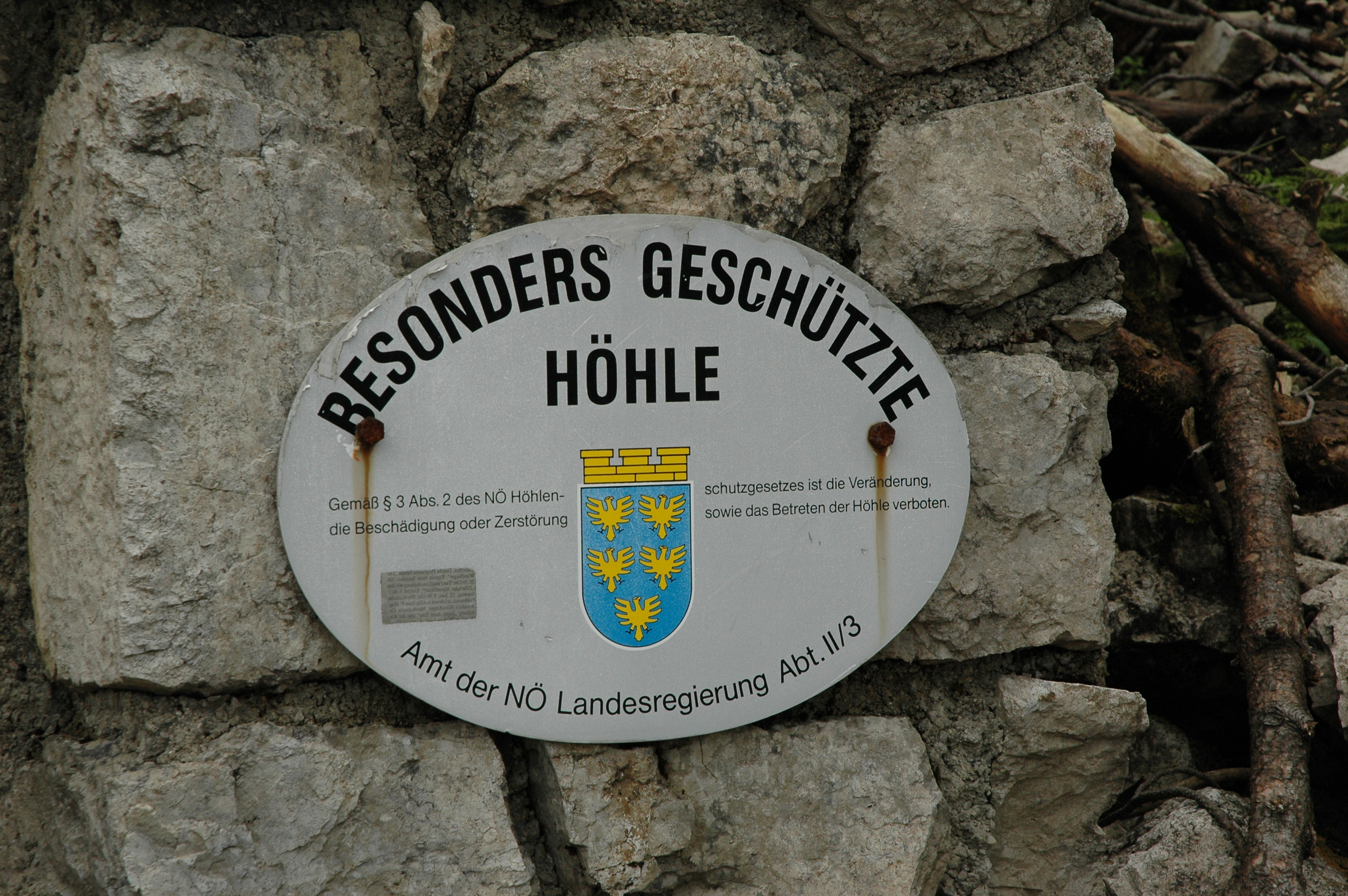 Hochkarschacht, Lower Austria